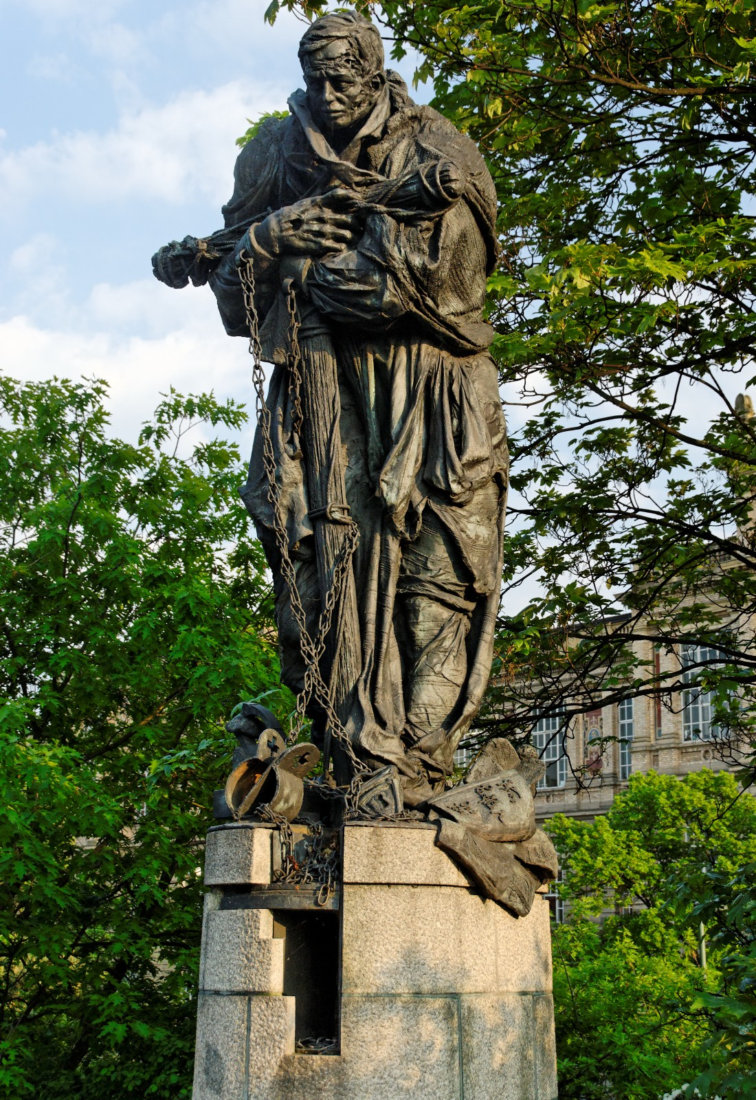 Statue of John of Nepomuk at Hofgartenrampe in Düsseldorf-Altstadt, Germany.